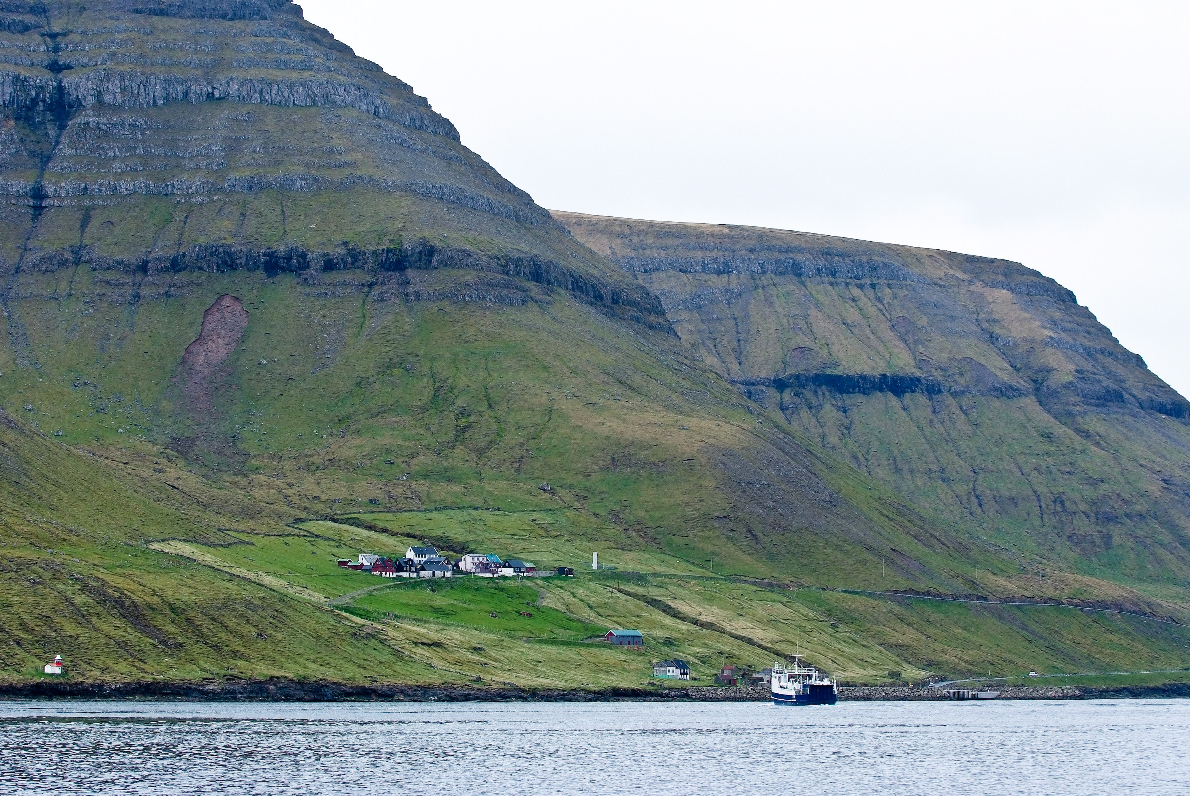 Syðradalur on Kalsoy in the Faroe Islands